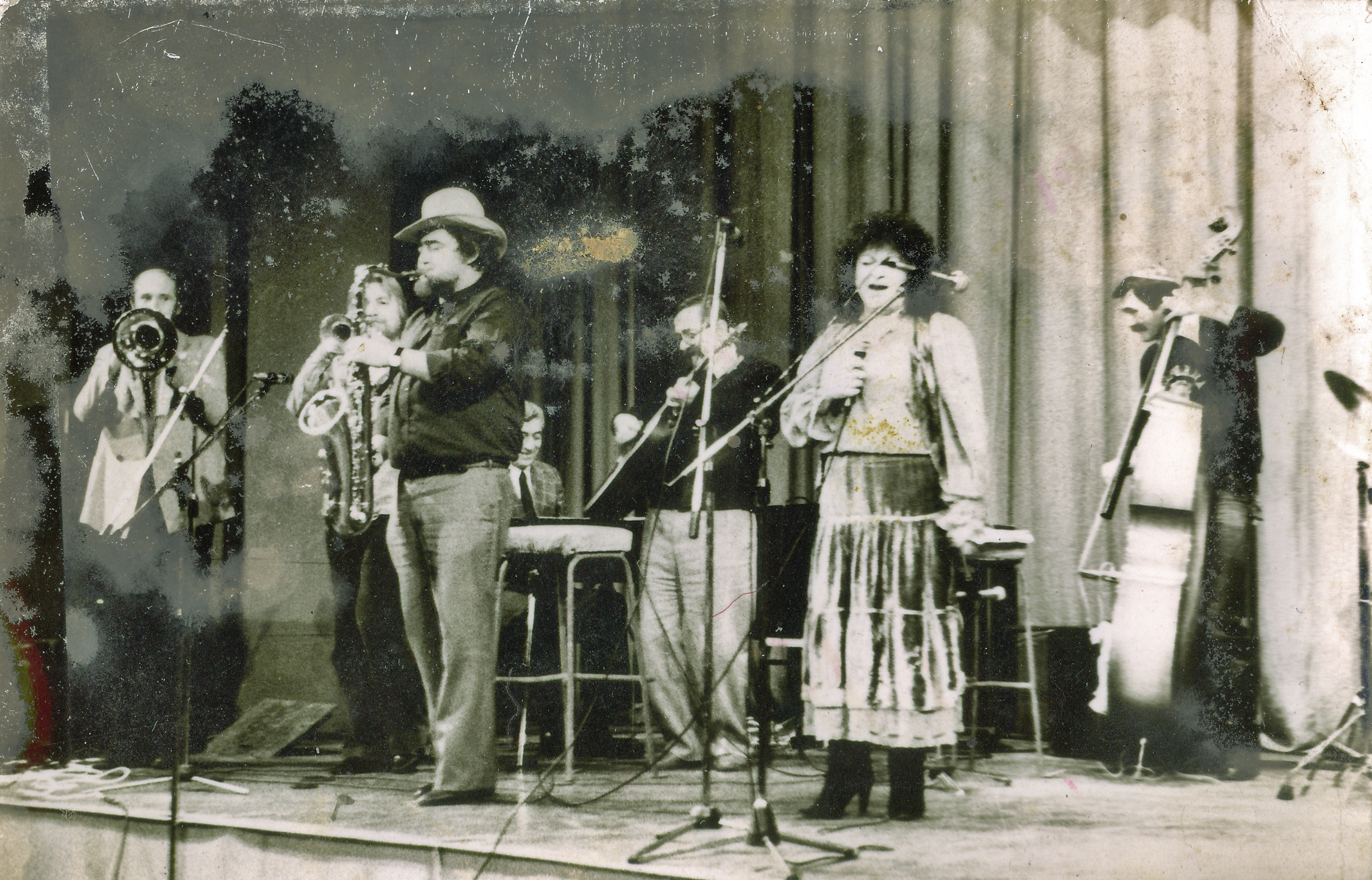 Jazz Concert at the Nis Theater, 1981: Nada Knežević (vocals), Milivoje Marković (saxophone), Miša Blam (double bass)